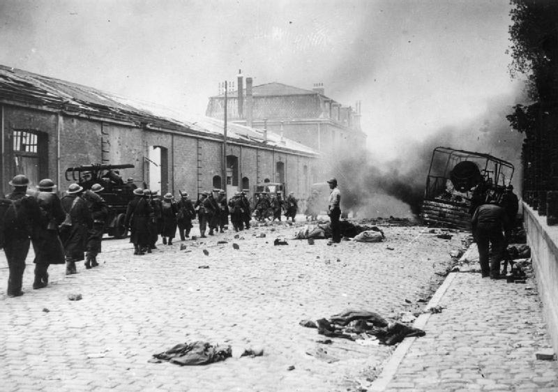 Dunkirk and the Retreat From France 1940 A column of British troops file past French firemen dealing with a burning lorry and the victims of German shelling in Dunkirk.